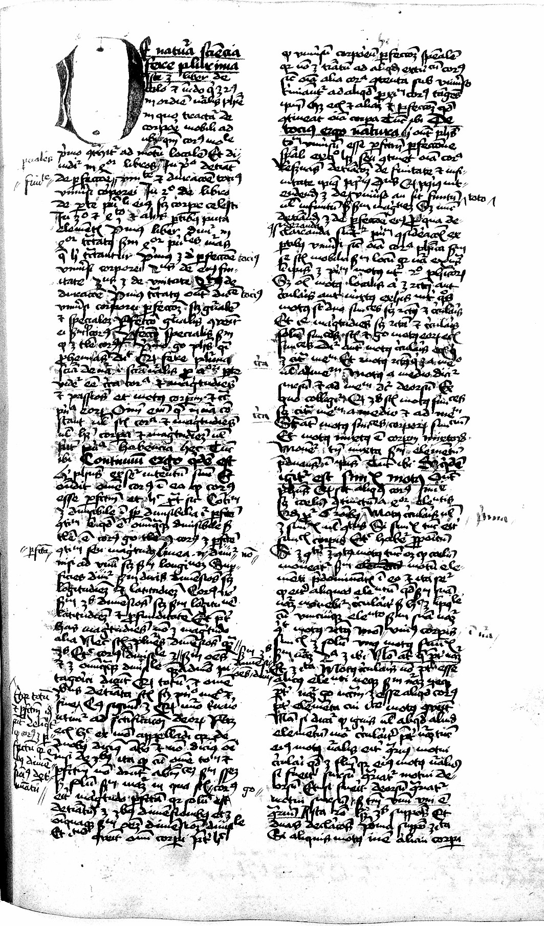 Analytica posteriora. Archives & Manuscripts